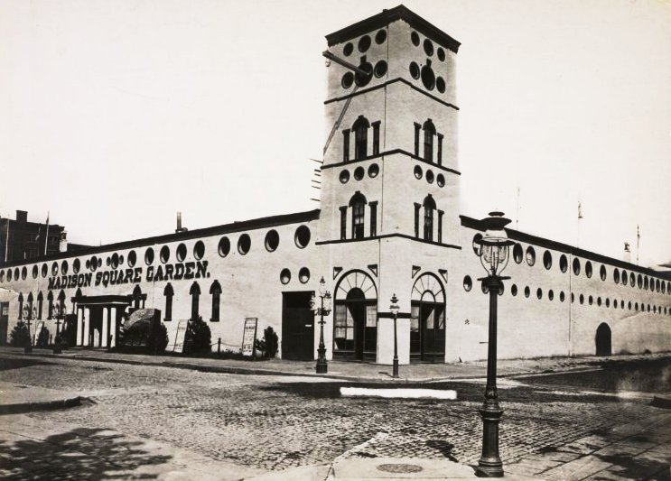 A photograph of the original Madison Square Garden (renamed in 1879), near Madison Square in Manhattan, New York